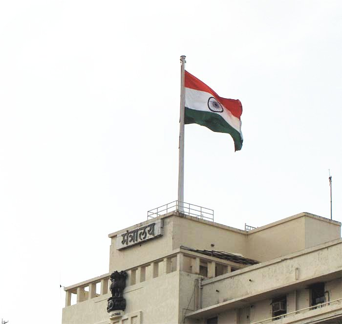 The flag at Mantralaya Mumbai Source: Taken by me User:Nichalp on 11-Aug-2005